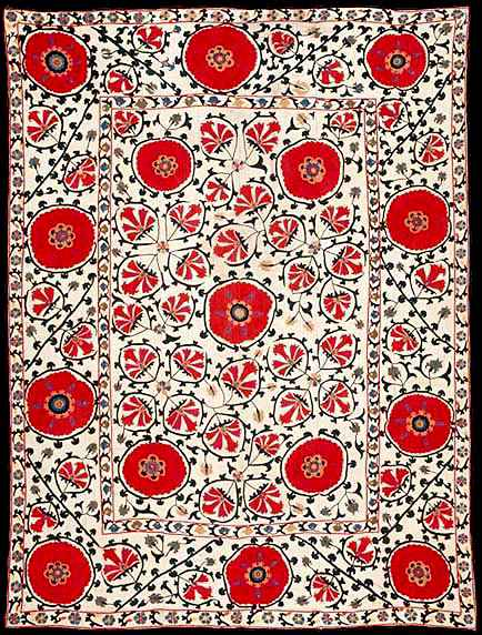 Shakhrisabz Suzani Large scale floral and vine forms. Produced circa 1850 in Uzbekistan. A very crisp example of this variety.